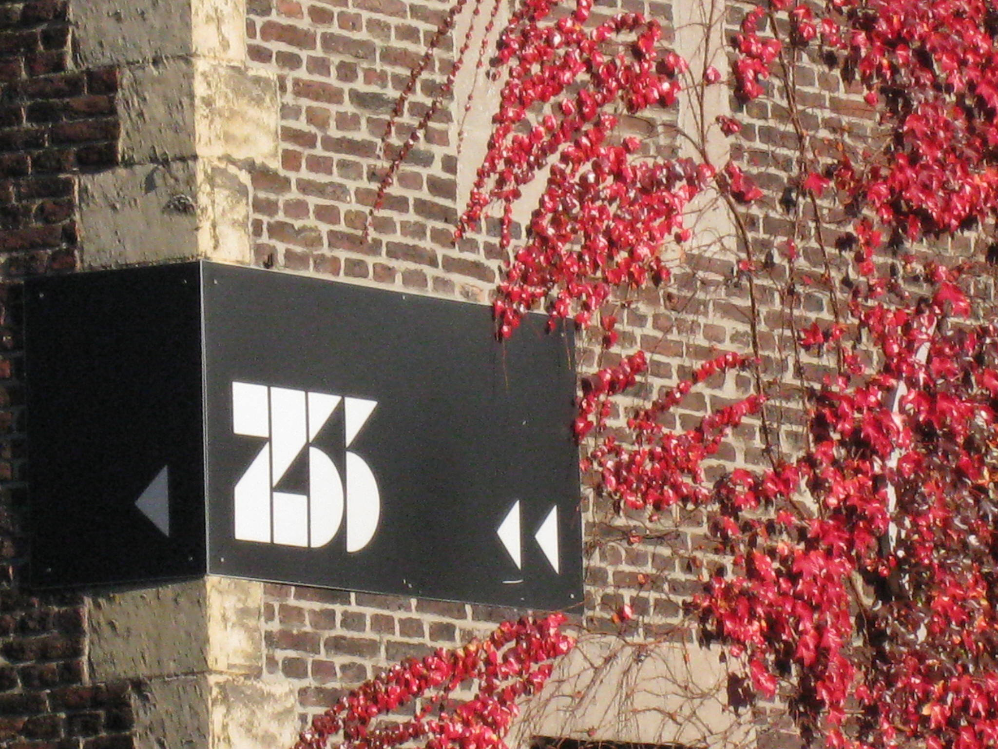 Attractive red-coloured Parthenocissus tricuspidata on a wall of the Beguinage of Hasselt, Belgium.